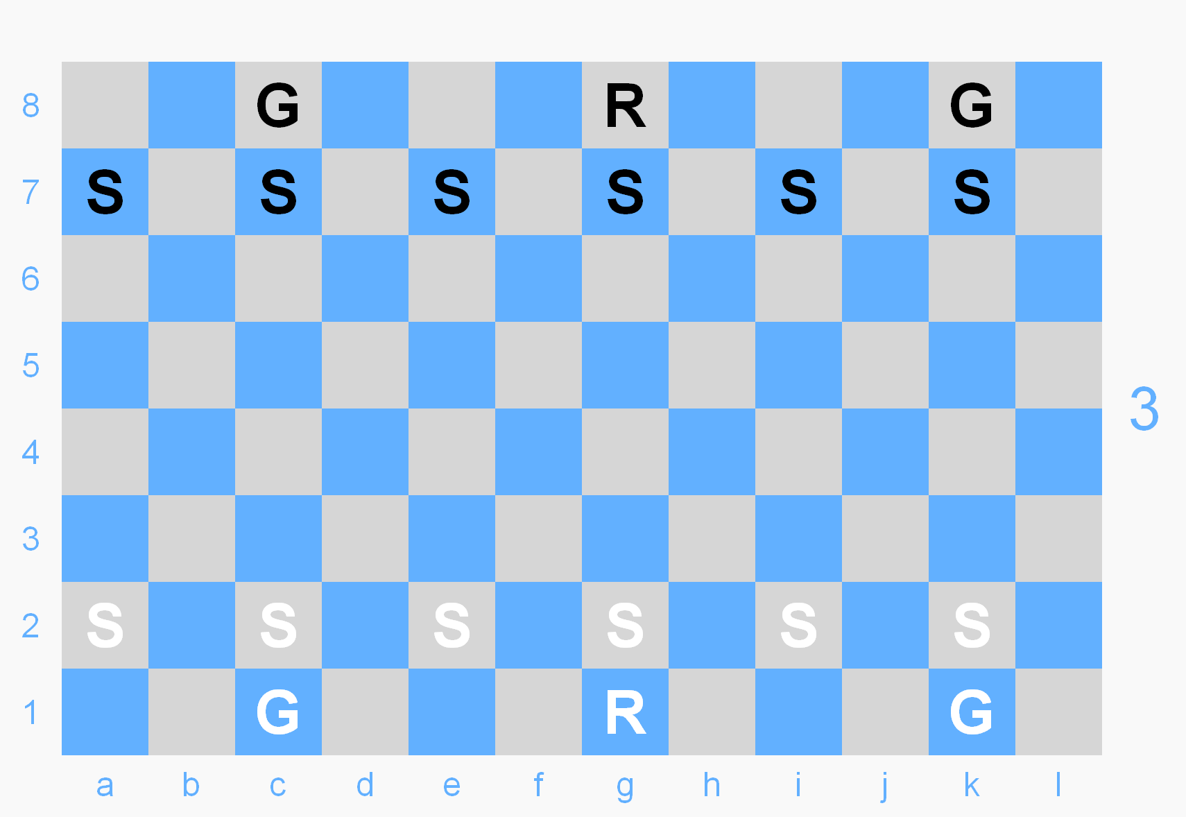 depicts Dragonchess upper board starting position